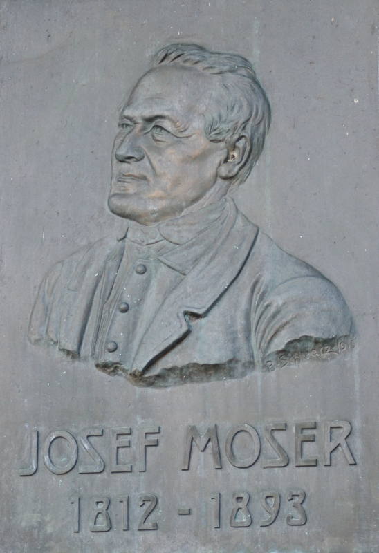 Memorial plate of Josef Moser, Doctor and Poet in Klaus, Upper Austria